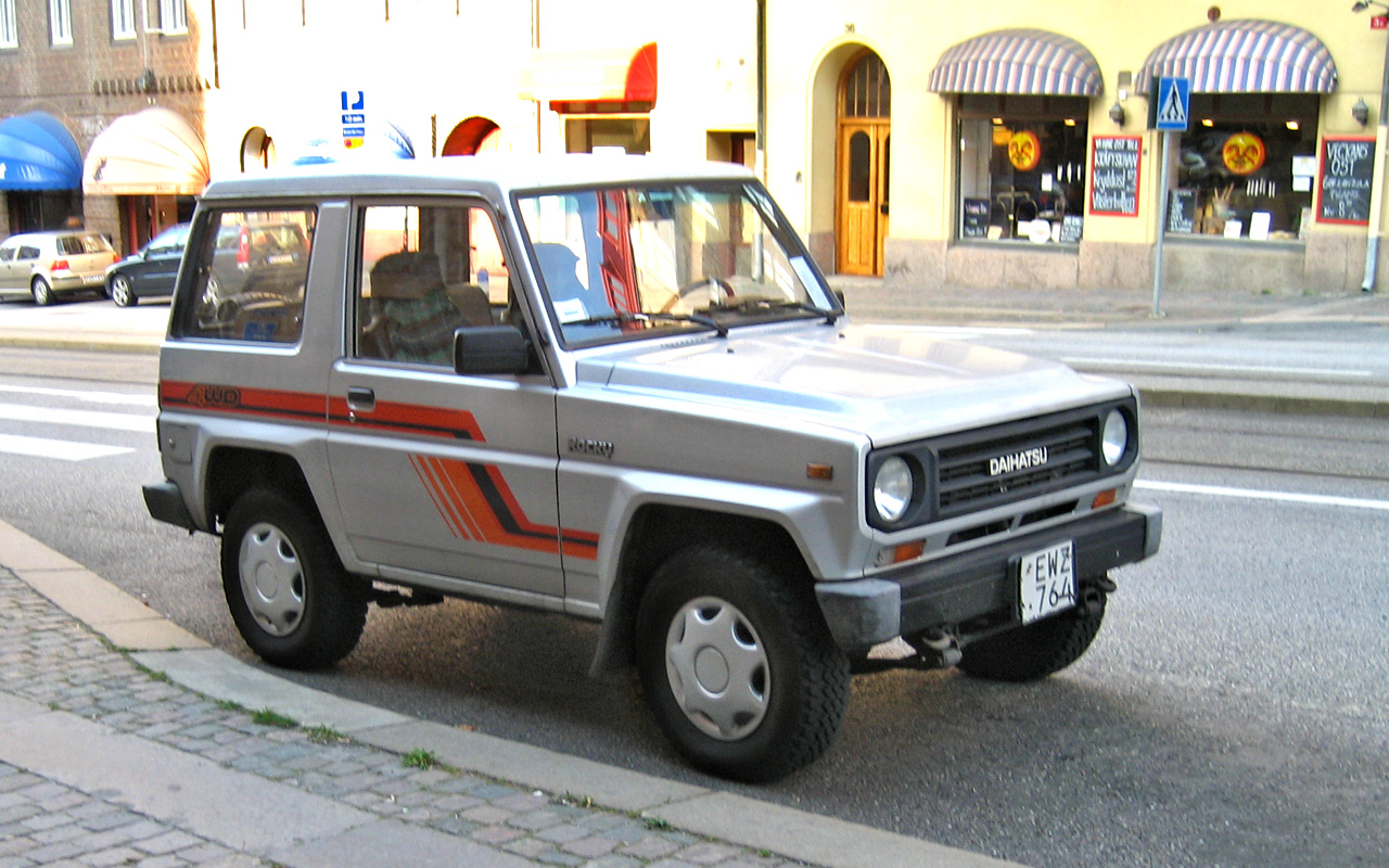 A 1985 Daihatsu Rocky 2.0 4WD in Gothenburg, Sweden. Out of traffic since 21 September 2014.